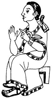 Xicotencatl the Elder, ruler of Tlaxcala